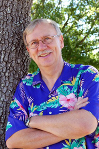 informal photography of Professor Jerry Bradley